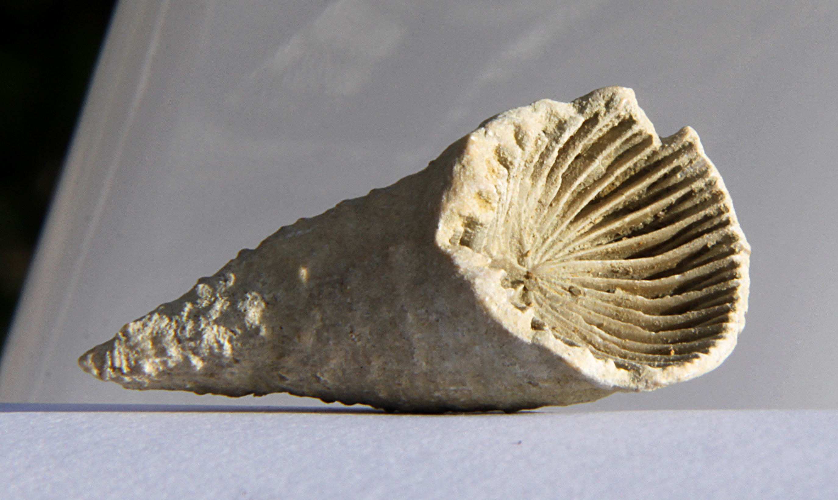 A horncoral, 38mm long, lateral view, inner bend, highlight,collected at the Bangor Limestone Formation in northern Alabama, USA, from the late Lower Carboniferous (Pennsylvanian, Visean)